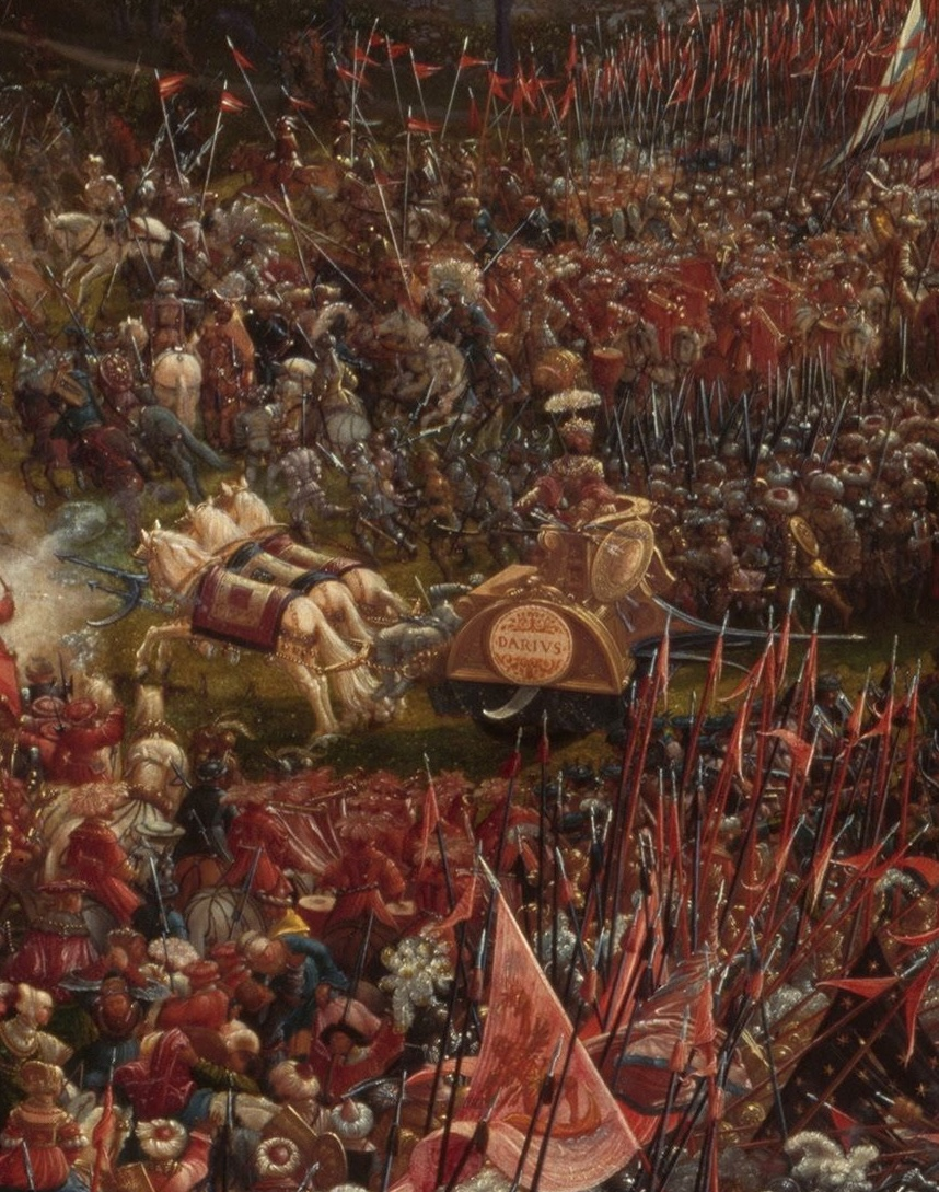 Battle of Alexander the Great against Persian King Darius